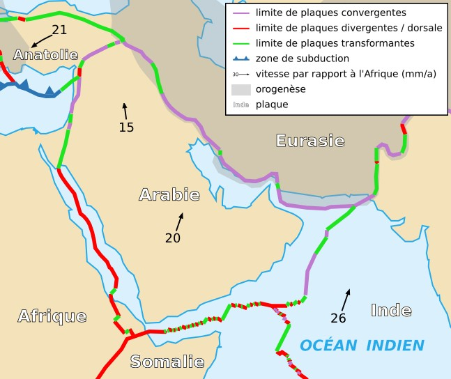 Map of the Arabian Plate